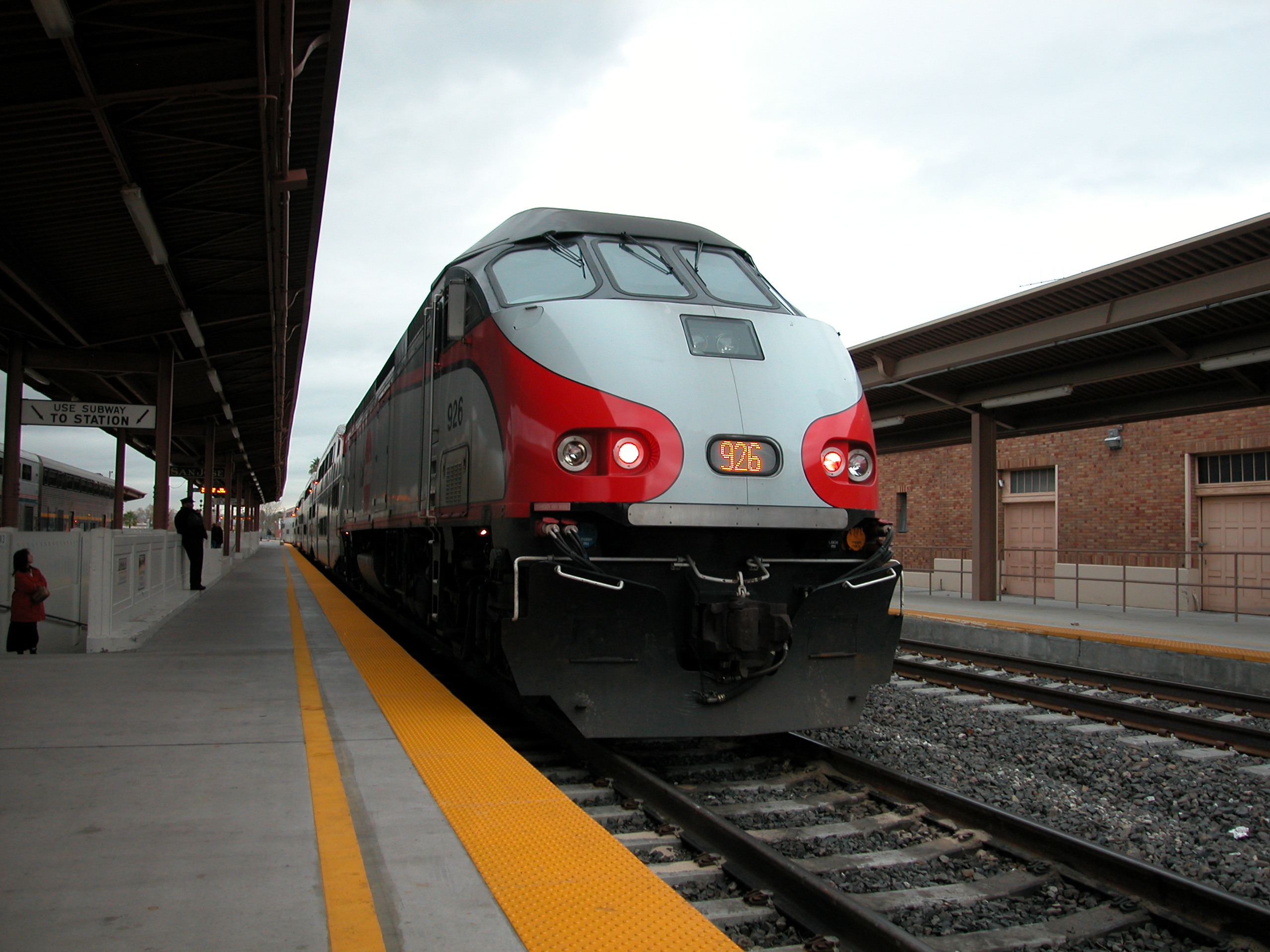 Caltrain Baby Bullet set at Diridon Station